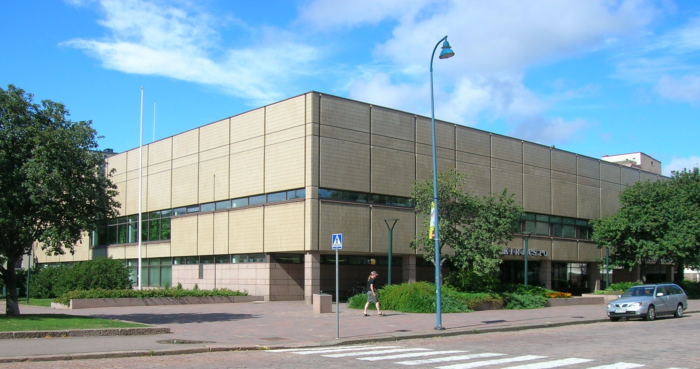 The main library building in Kotka, Finland.